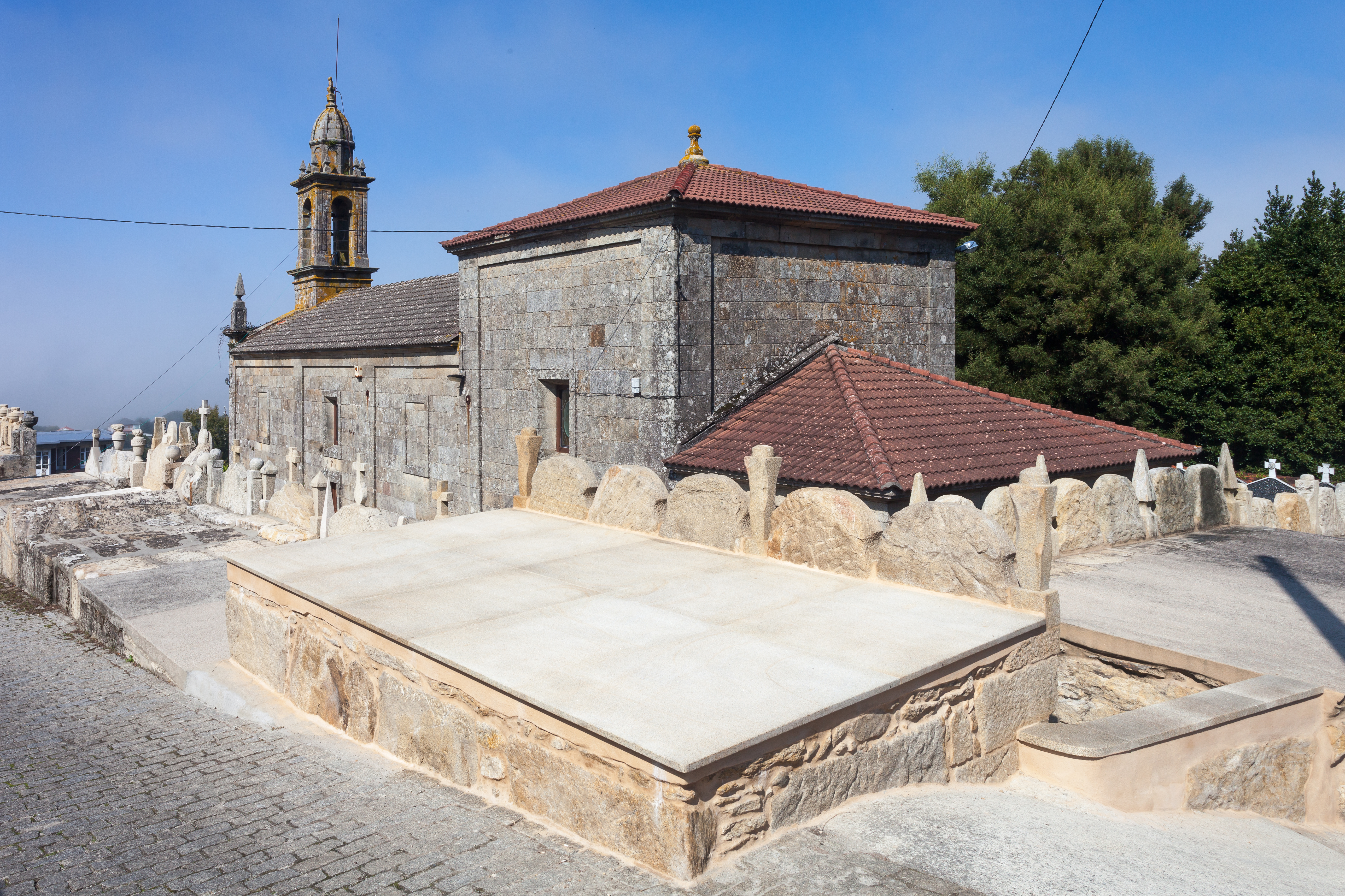 Church of Lira, Carnota, Galicia (Spain).